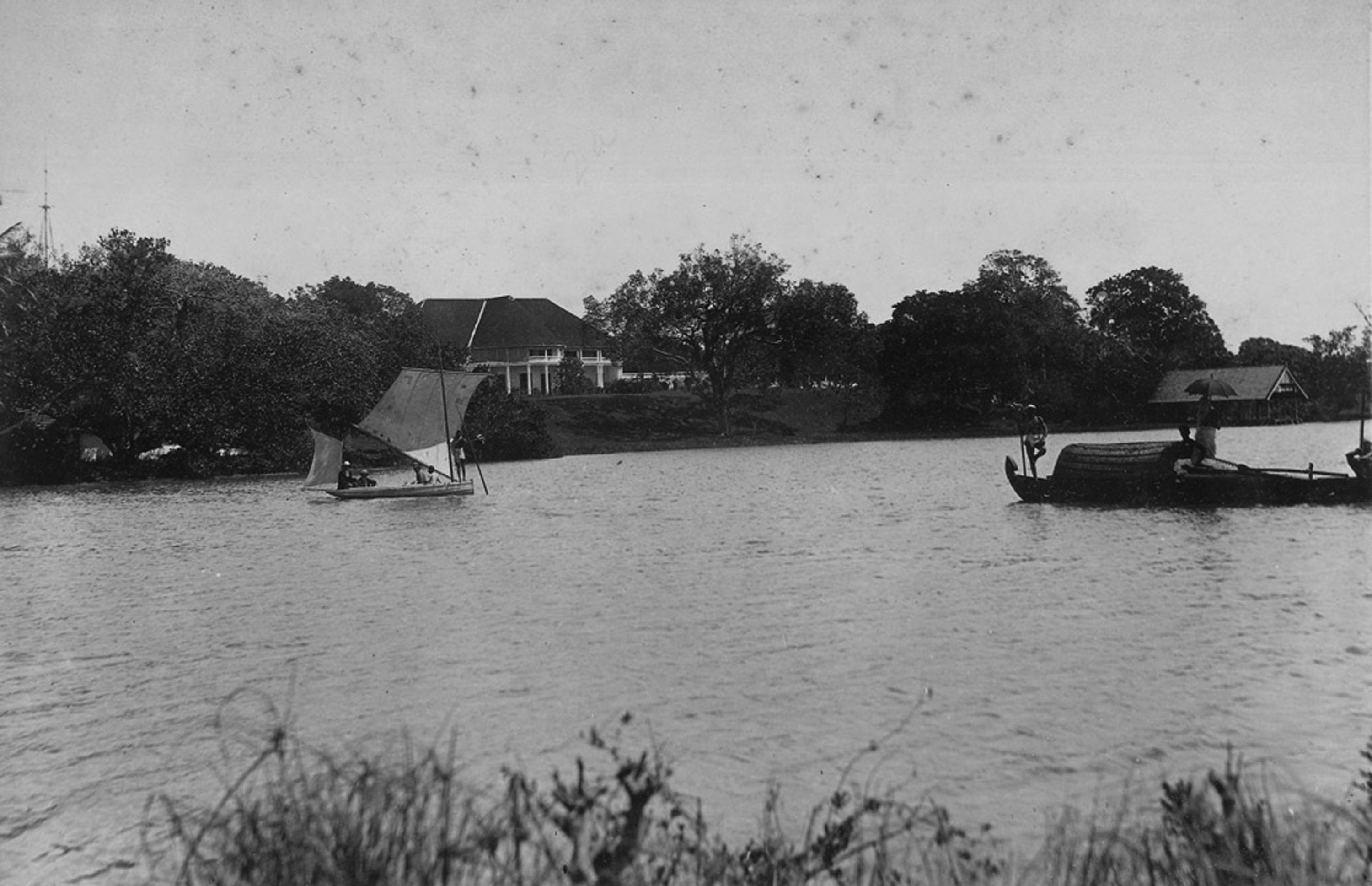 View of the British Residency from the opposite bank of a river with local craft seen on the water, from the Kitchener of Khartoum Collection: Miscellaneous views in India, taken in the early 1900s. Quilon (now known as Kollam), the erstwhile capital of Travancore is one of the oldest towns on the Malabar coast. Quilon's natural position made it one of the greatest ports of trade from ancient days. In 1503 the Portuguese established a factory and fort here which were subsequently captured by the Dutch in 1653. It was besieged by Travancore in the 18th century and in the early 19th century British forces were garrisoned here and the town and port continued to develop. Till 1829, Quilon was the capital of the Travancore State with the headquarters of the British Residency situated here. This image falls into the public domain as it was taken in India prior to 1 January 1951, and was not published in India after that date. It is in public domain in the United States as well as it was taken prior to 1 January 1951.